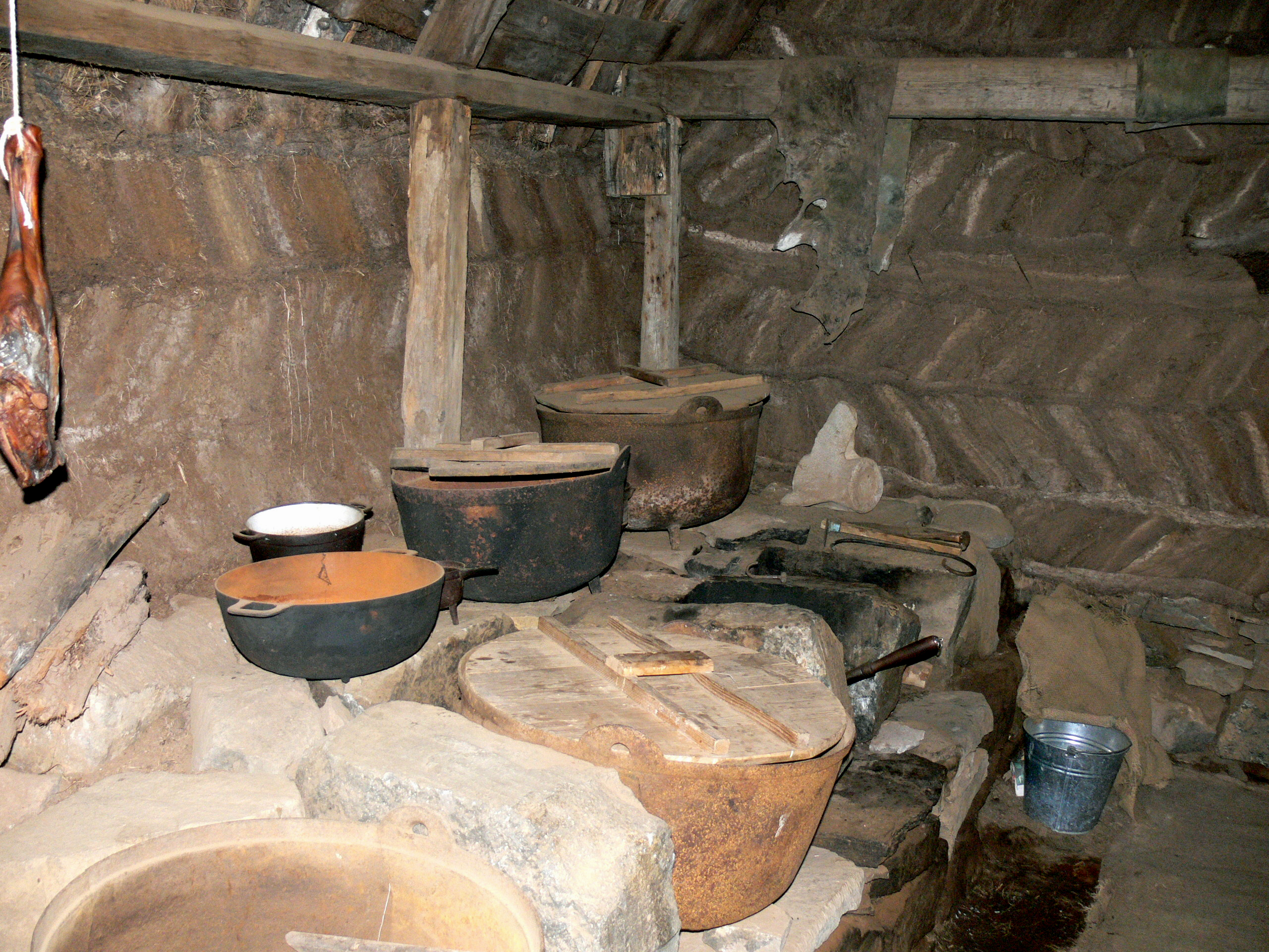 Laufas. Museum: Kitchen.